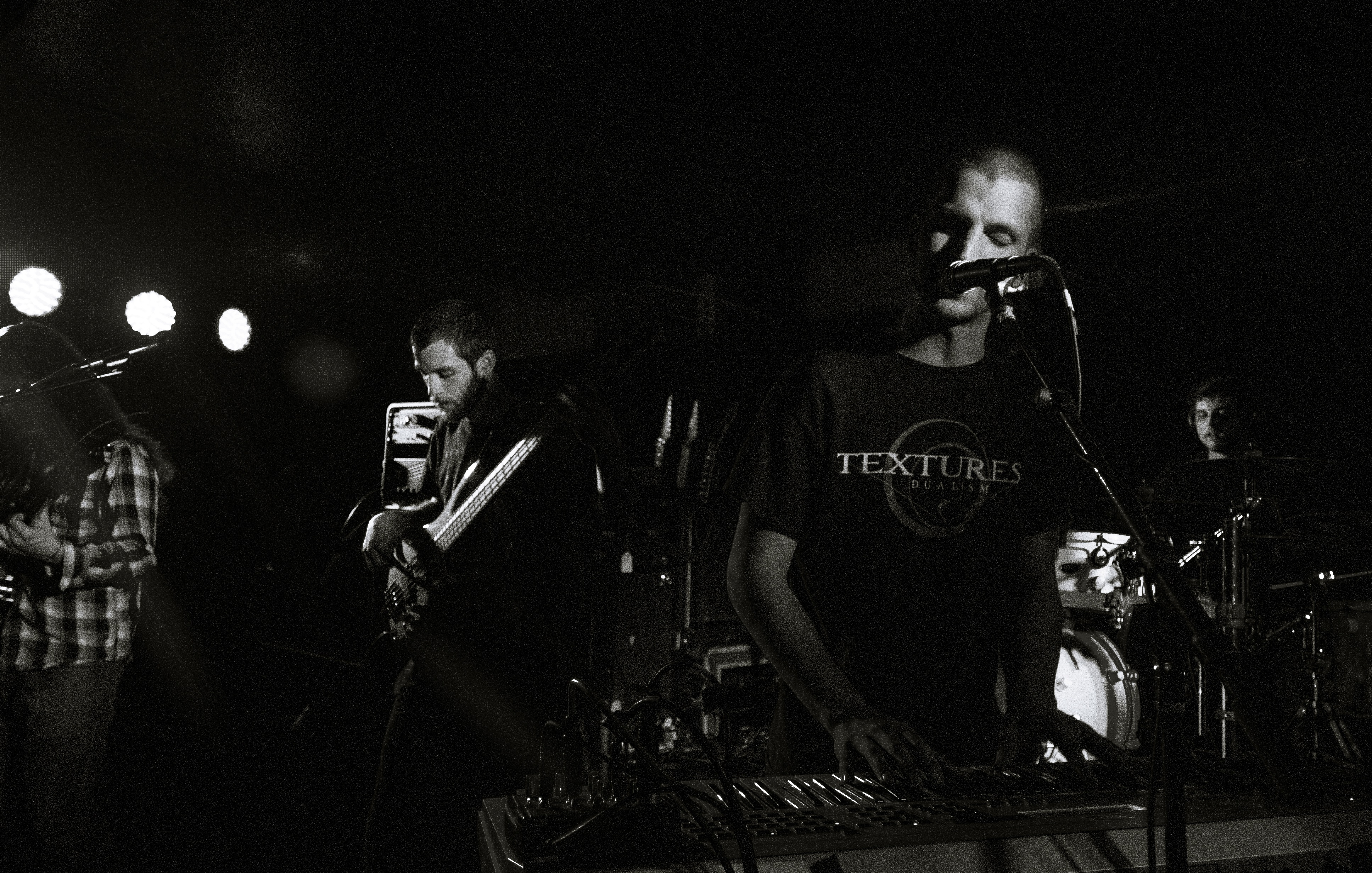 The Contortionist live.